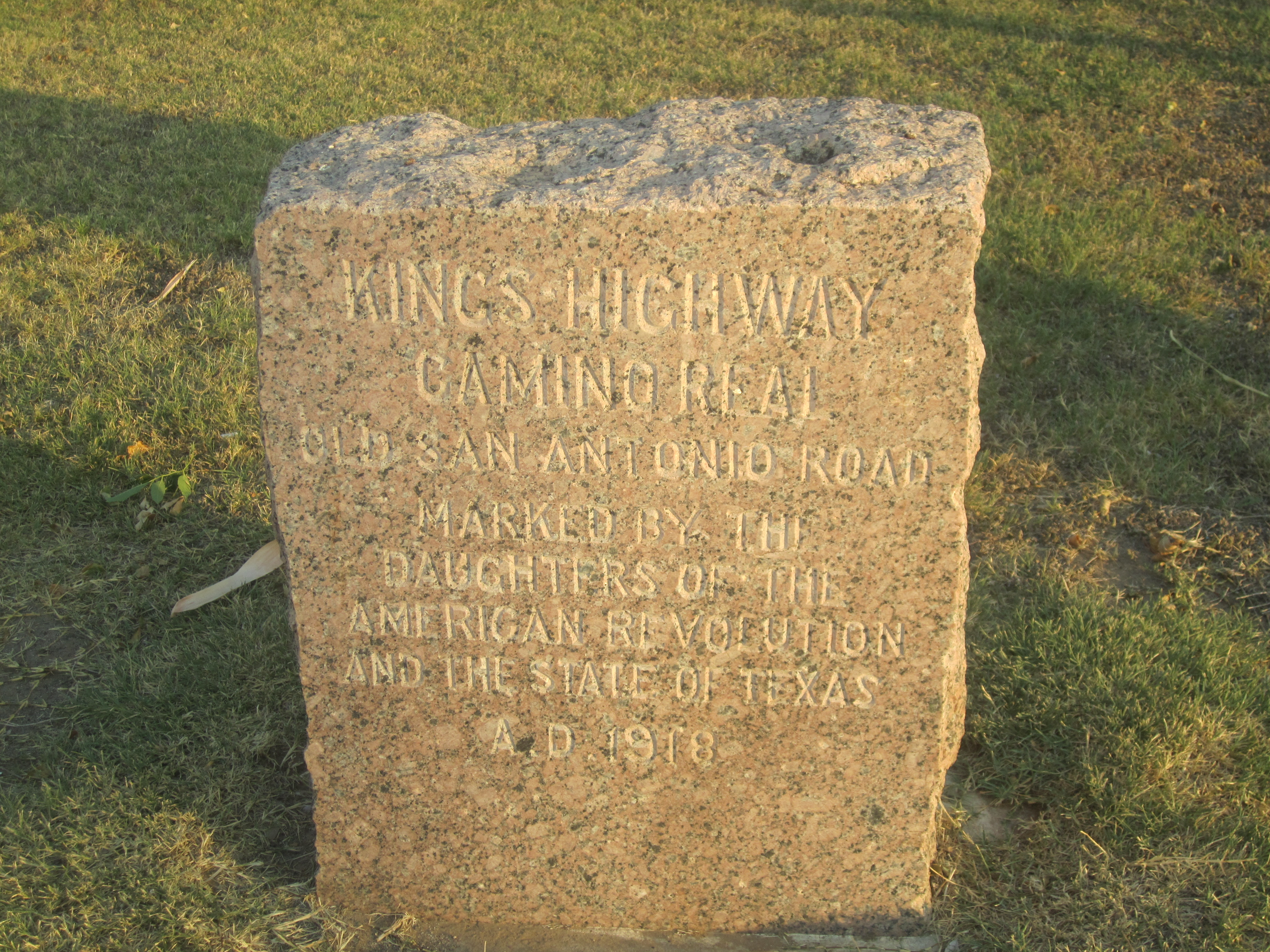 Kings Highway Marker. I took photo with Canon camera of El Camino Real marker in Cotulla, TX.